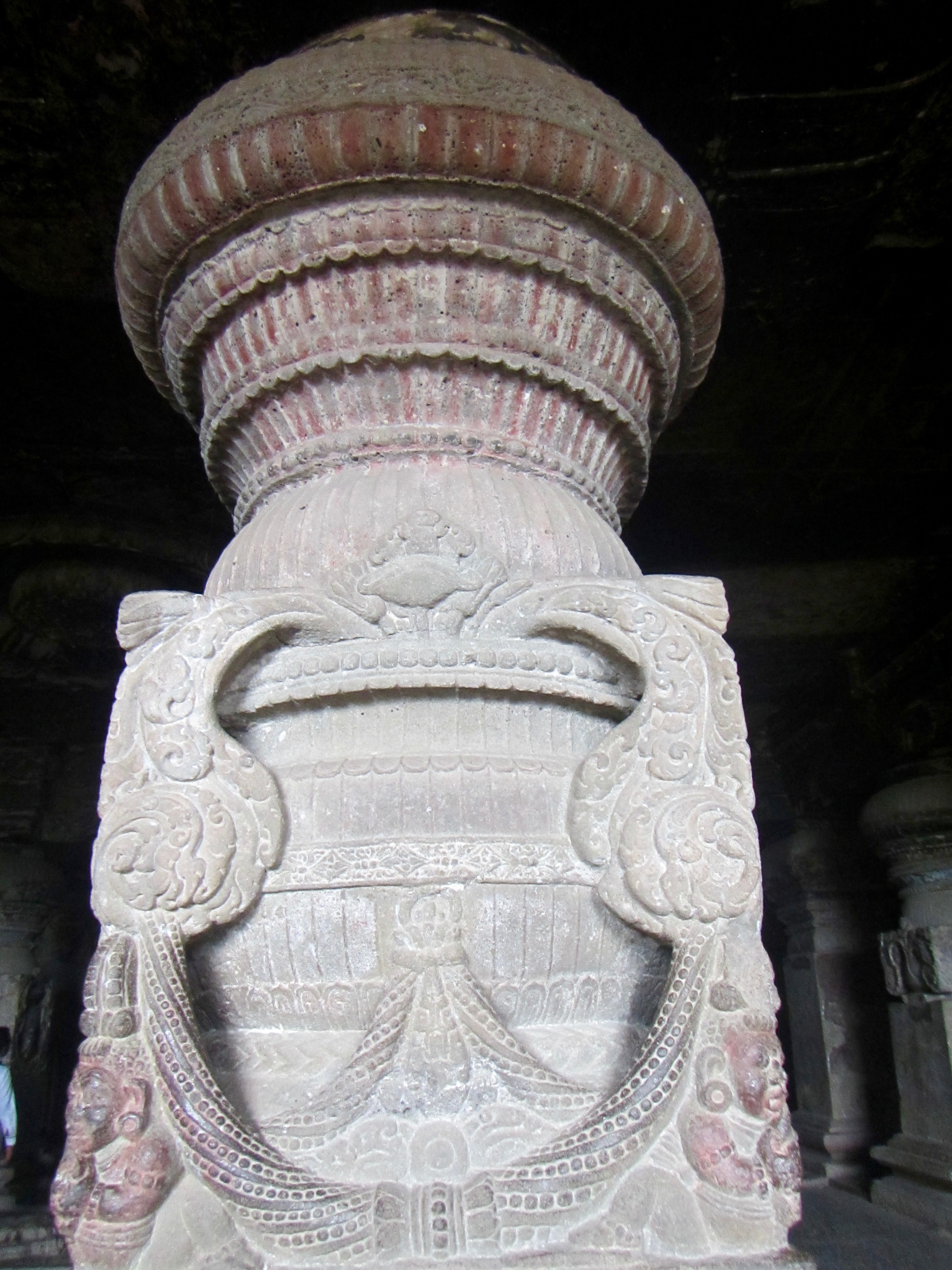 Ellora caves, Jain Jaina Jainism Digambara temples